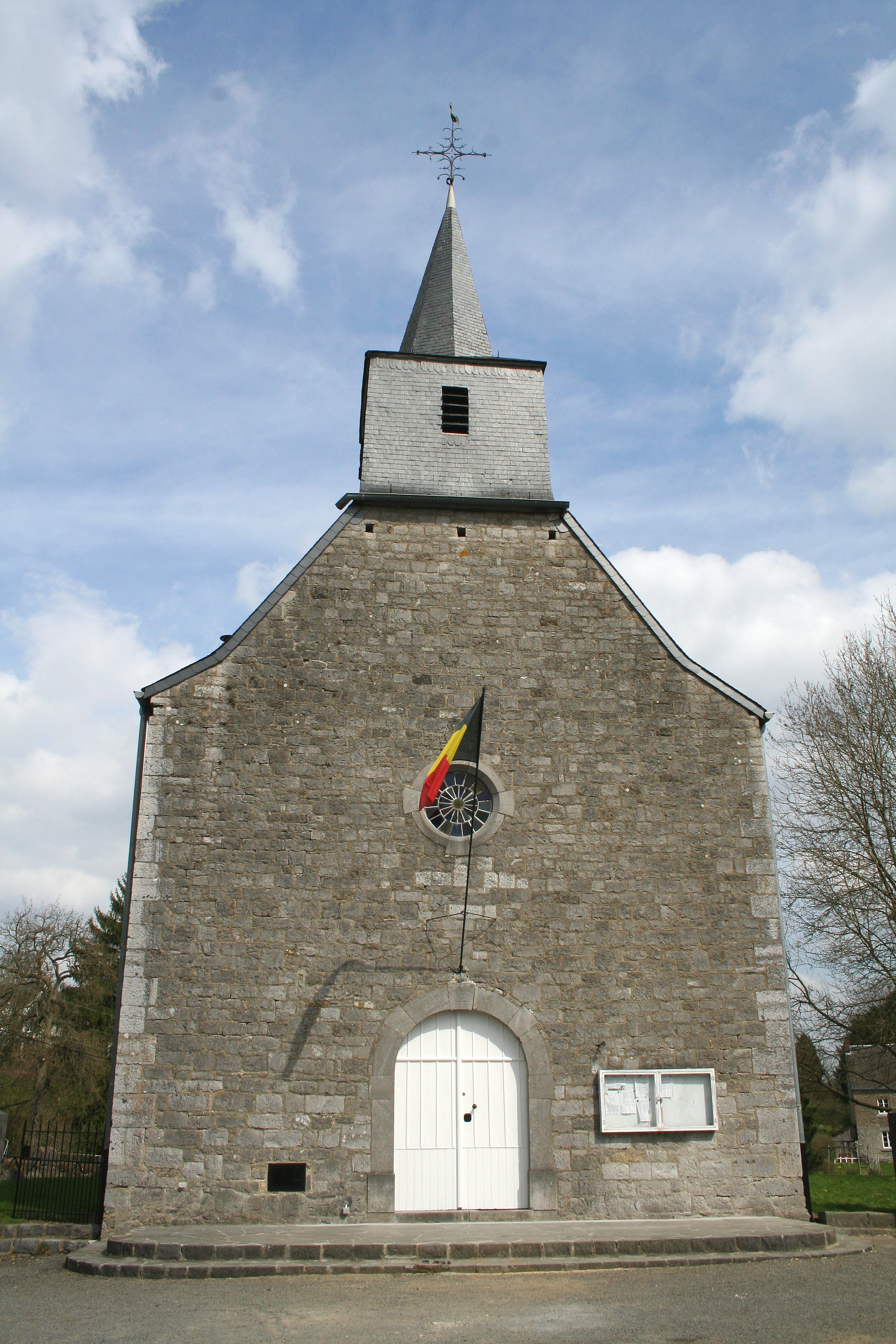 Custinne (Belgium), the St. Helena church (1837).